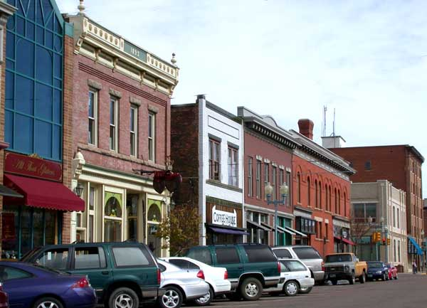 Downtown Laramie, Wyoming (taken Oct. 16, 2004) © 2004 Matthew Trump Added by Nyttend: Location is the 100 block of E. Grand Ave., with the 2nd St. intersection visible in the distance. This block is part of the Laramie Downtown Historic District, which is included in the National Register of Historic Places.